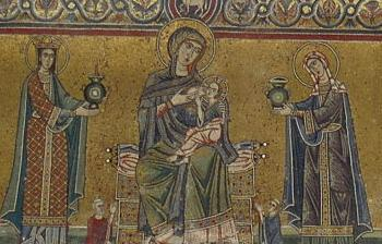 "Madona lactans" (detail) ca. 1290-1310; mosaic on the façade in Santa Maria in Trastevere (Rome). [1]